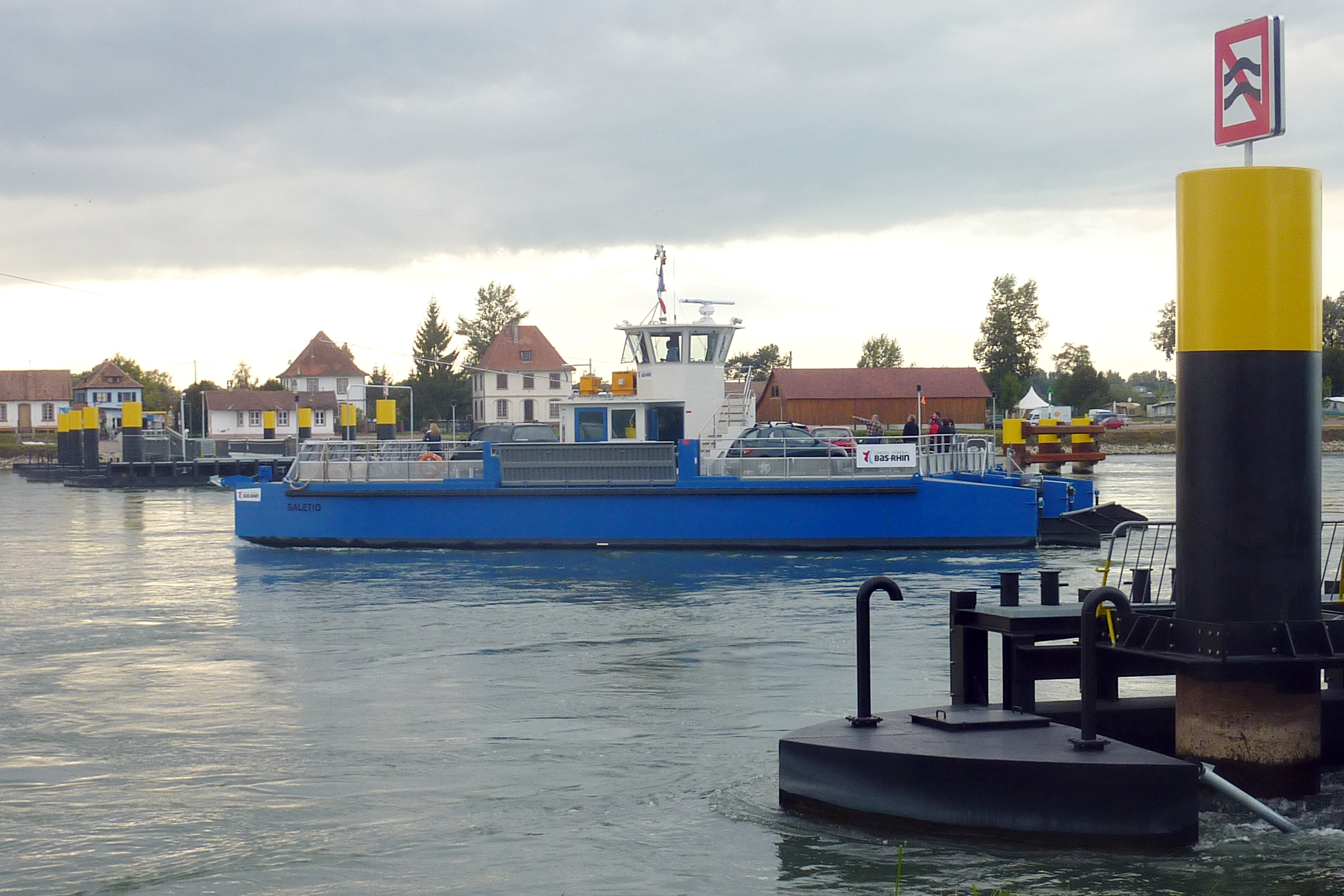 the new Rhine ferry between Plittersdorf and Seltz (since September 2010)